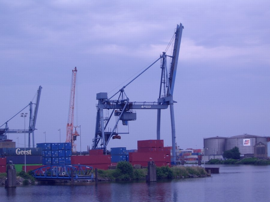 Gantry cranes in the industrial port of Bremen.